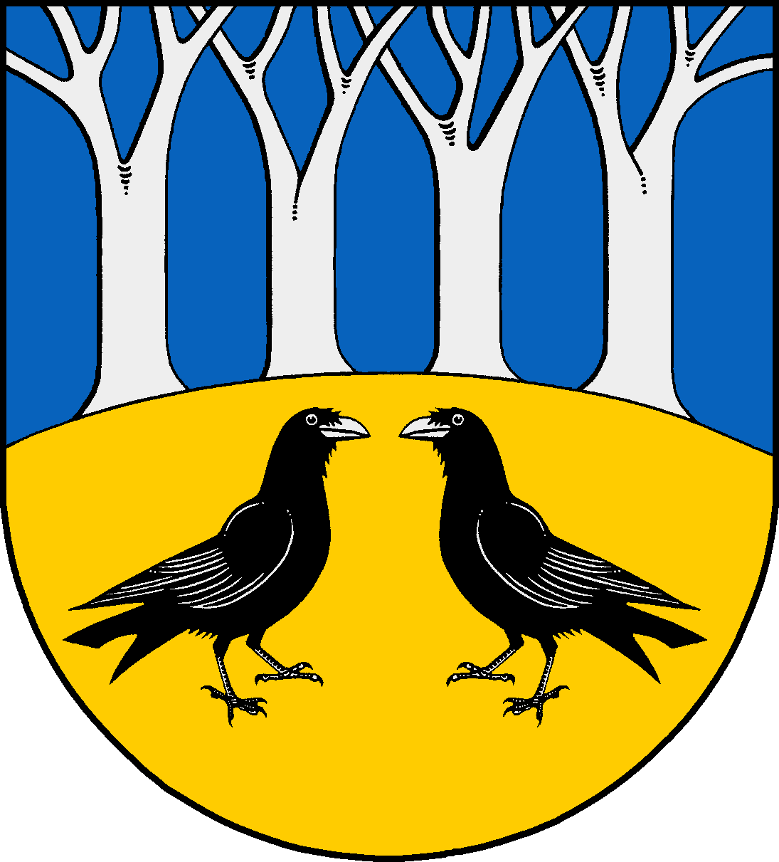 Coat of arms of the municipality Rabenholz in Schleswig-Holstein, Germany.